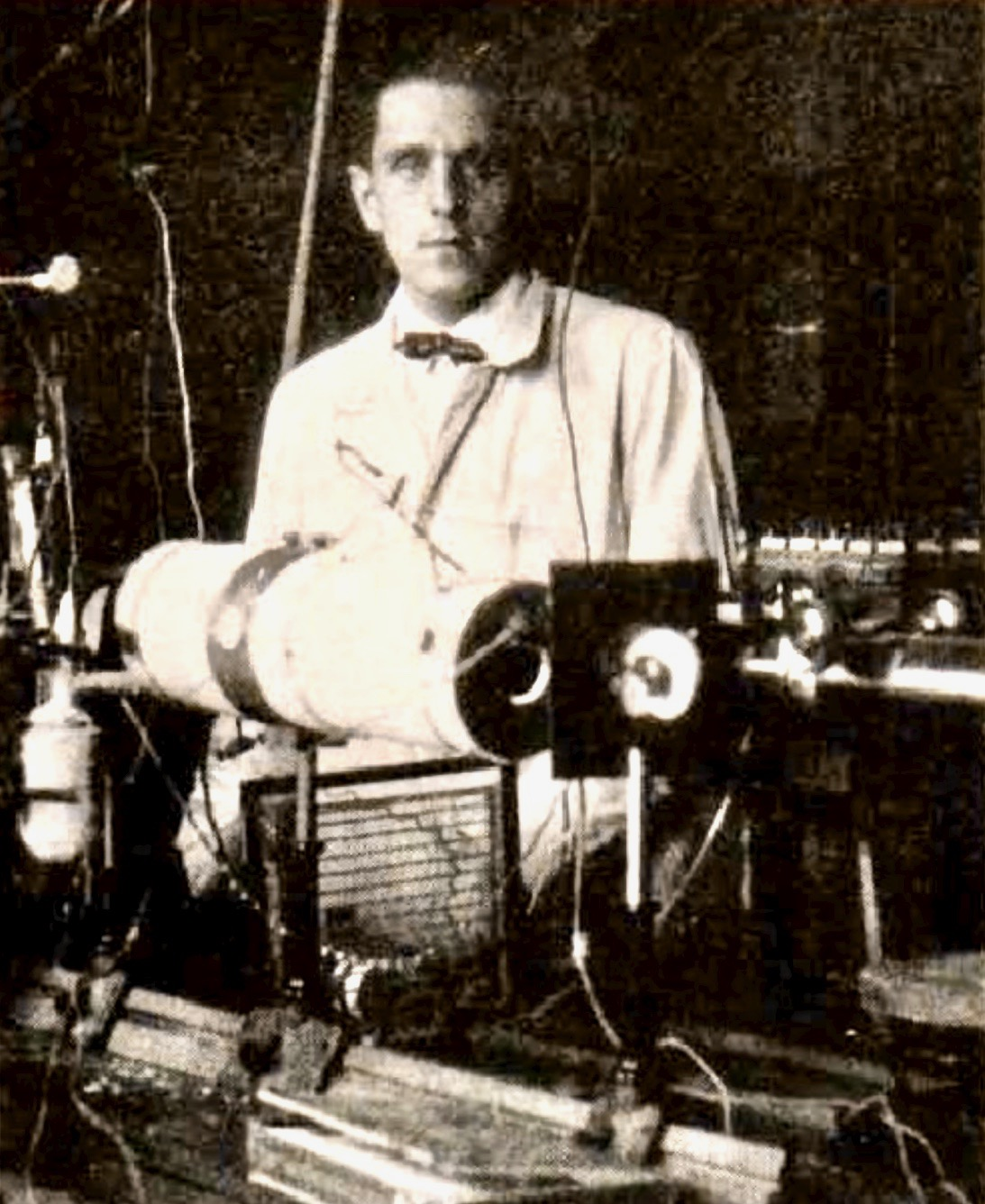 The German physicist Friedrich „Fritz“ Georg Houtermans (1903–1966) at University of Göttingen